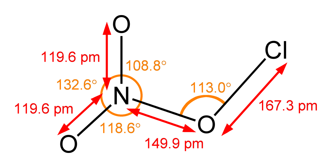 Dimensions of the planar chlorine nitrate molecule, ClONO2